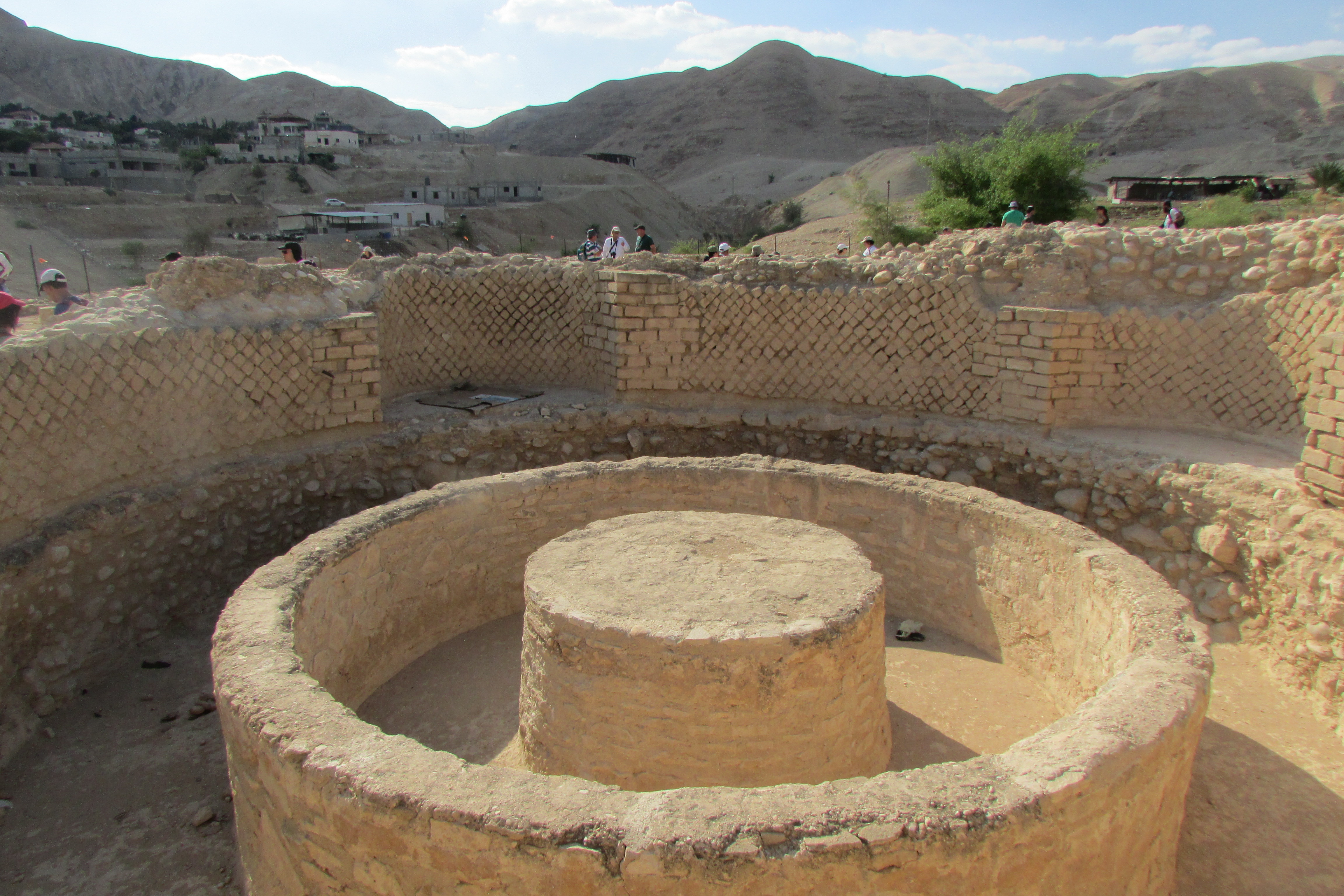 Round bath room in the third Herodian winter palace in Jericho